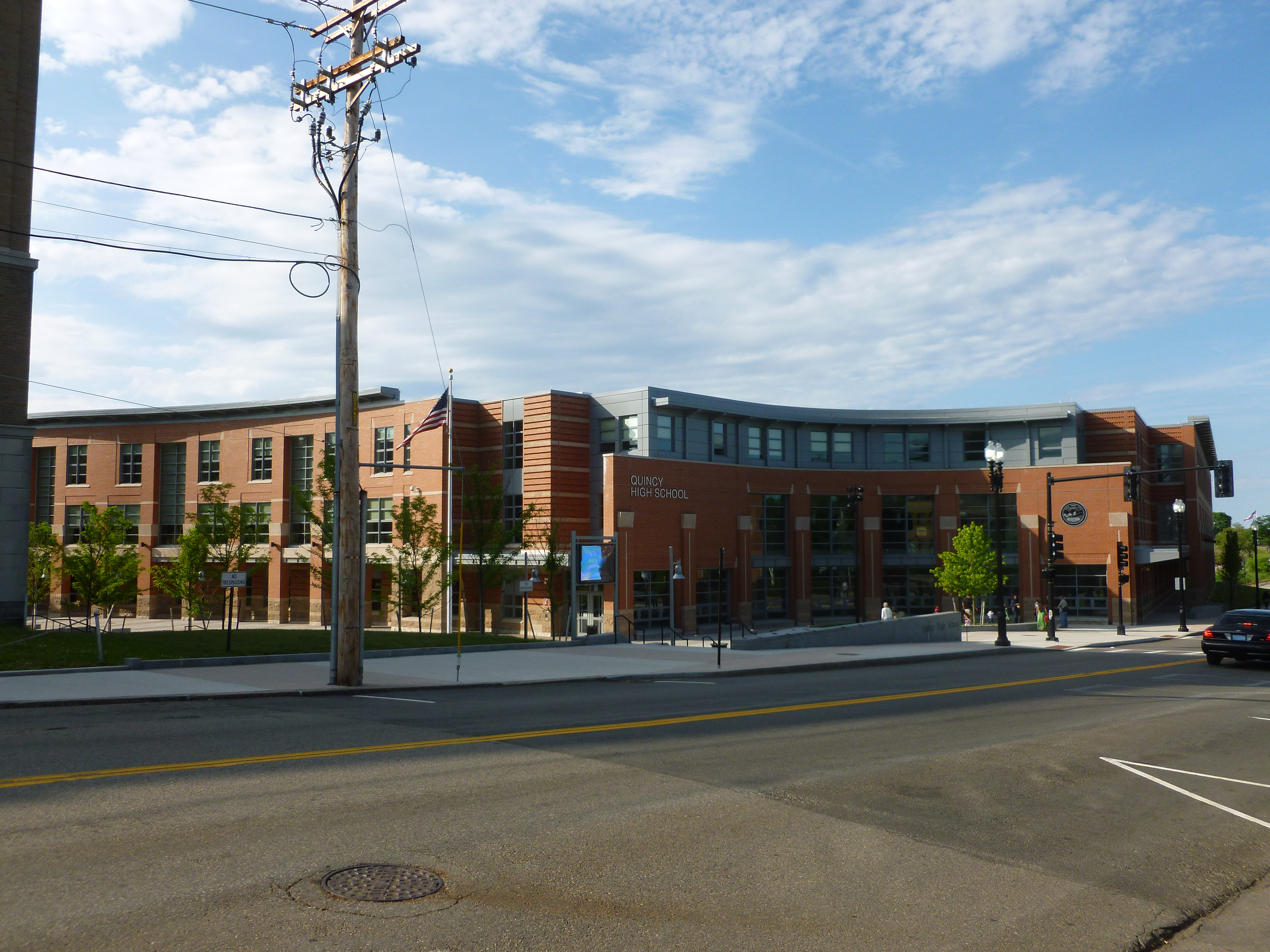 Quincy High School, located at 100 Coddington Street, Quincy, Massachusetts.